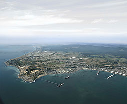 city of coronel, nice